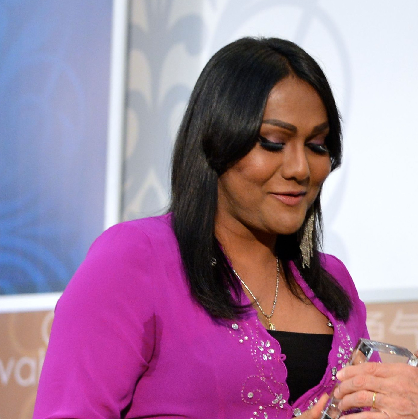 Cropped pic at the 2016 International Women of Courage Award of Nisha Ayub of Malaysia, Transgender Rights Advocate, at the U.S. Department of State in Washington, D.C., on March 29, 2016. [State Department photo/ Public Domain]